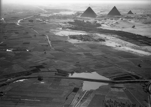 January 24, 1938. Cairo, Egypt: Another view of the pyramids and the border of the cultivated Nile valley. c. 1000 feet. 10:10.